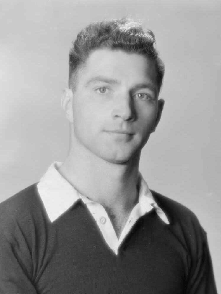 F S McAtamney, 1955 New Zealand All Black rugby union trialist